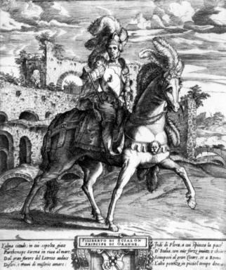 Picture of Philibert of Châlon, Prince of Orange. © by the Österreichische Nationalbibliothek.